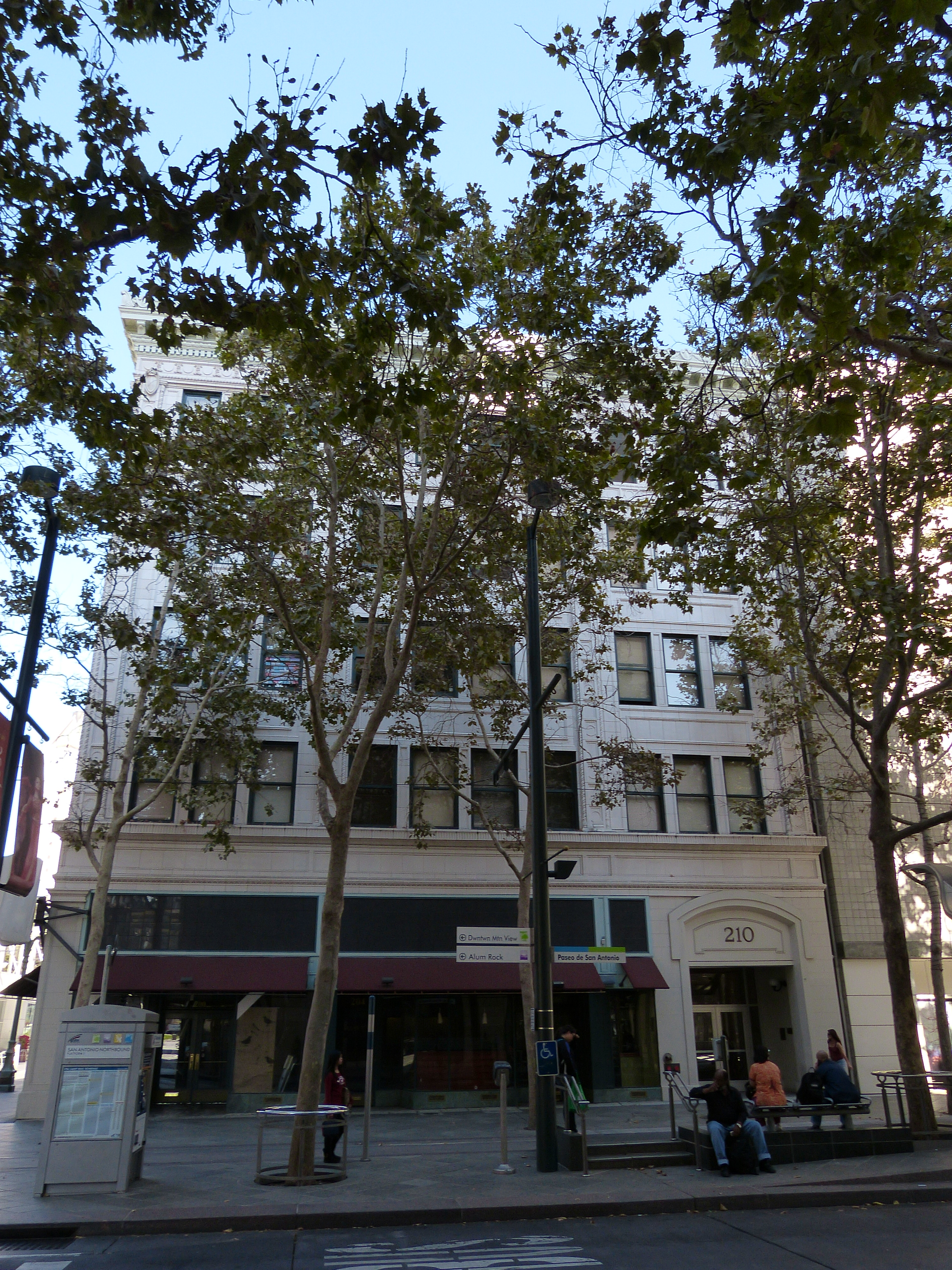 Twohy Building as of 2012